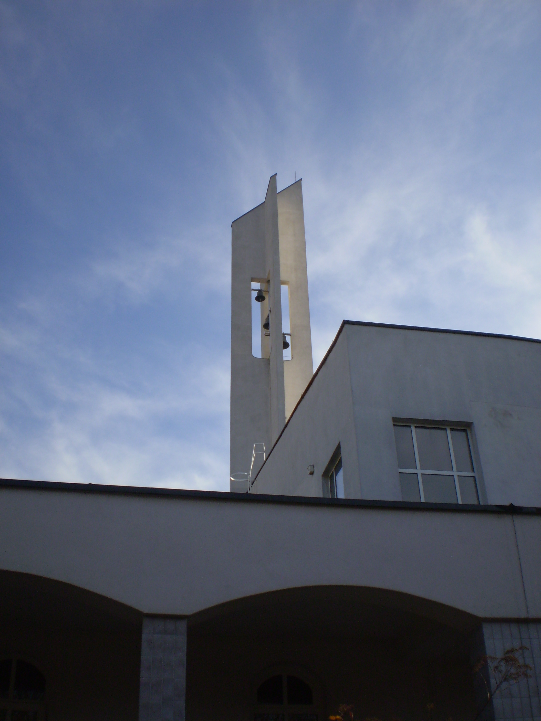 Salesian Church of Our Lady Help of Christians in Brno-Žabovřesky, Czech Republic.